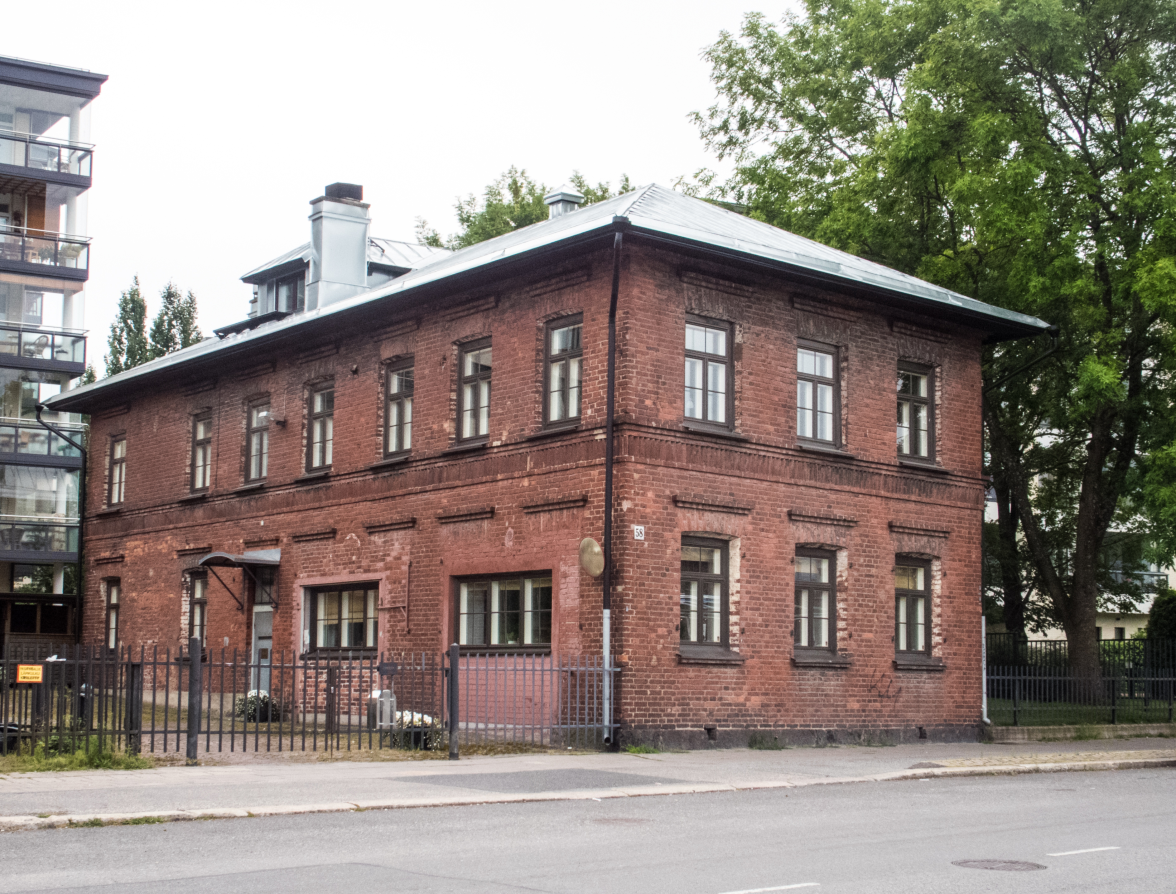 Spinhuusi (spinning house?) next to the William Crichton residence, located by the Aura river, address Itäinen Rantakatu 58, Turku, Finland. The house was built in 1873 as an office for shipbuilding company and engineering works W:m Crichton & C:o.